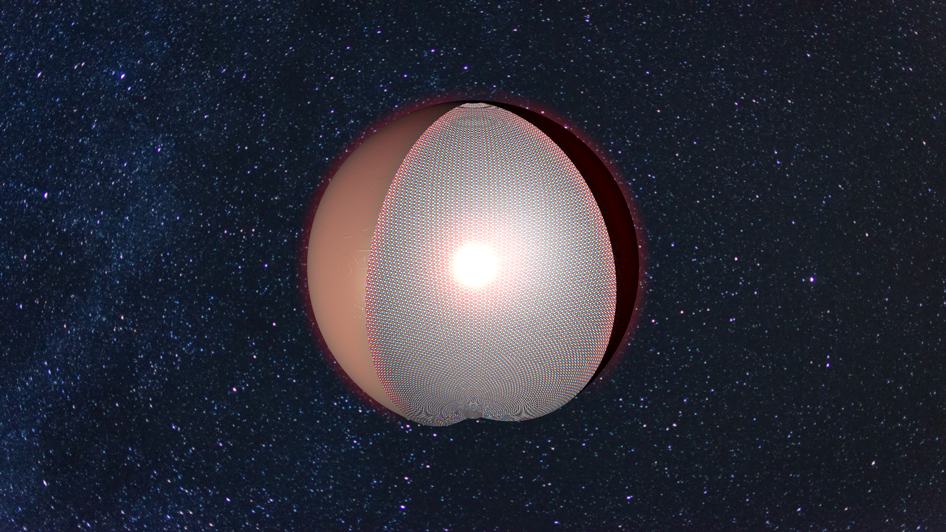 Dyson sphere scheme in cutaway